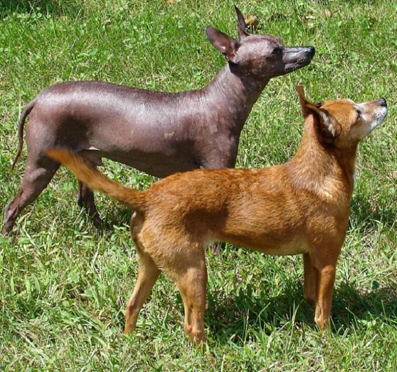 Michelob (Michael) and Irish Mist (Misty), a hairless and a coated Xoloitzcuintli. Christopher A. and Amanda L. Dellario, Nottingham, NH, USA. 800x751 px. Photo taken by Amanda L. Dellario, August 2006.